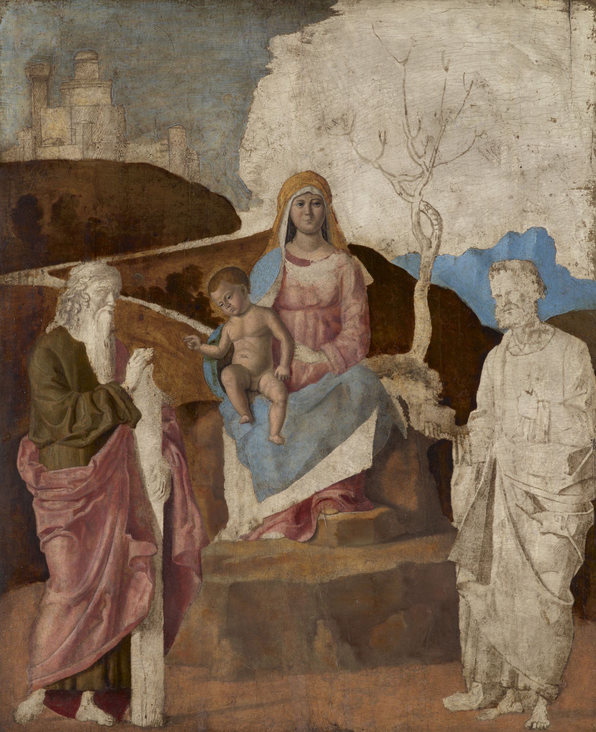 A depiction of the Virgin Mary and the infant Jesus with Saint Andrew (left) and Saint Peter.